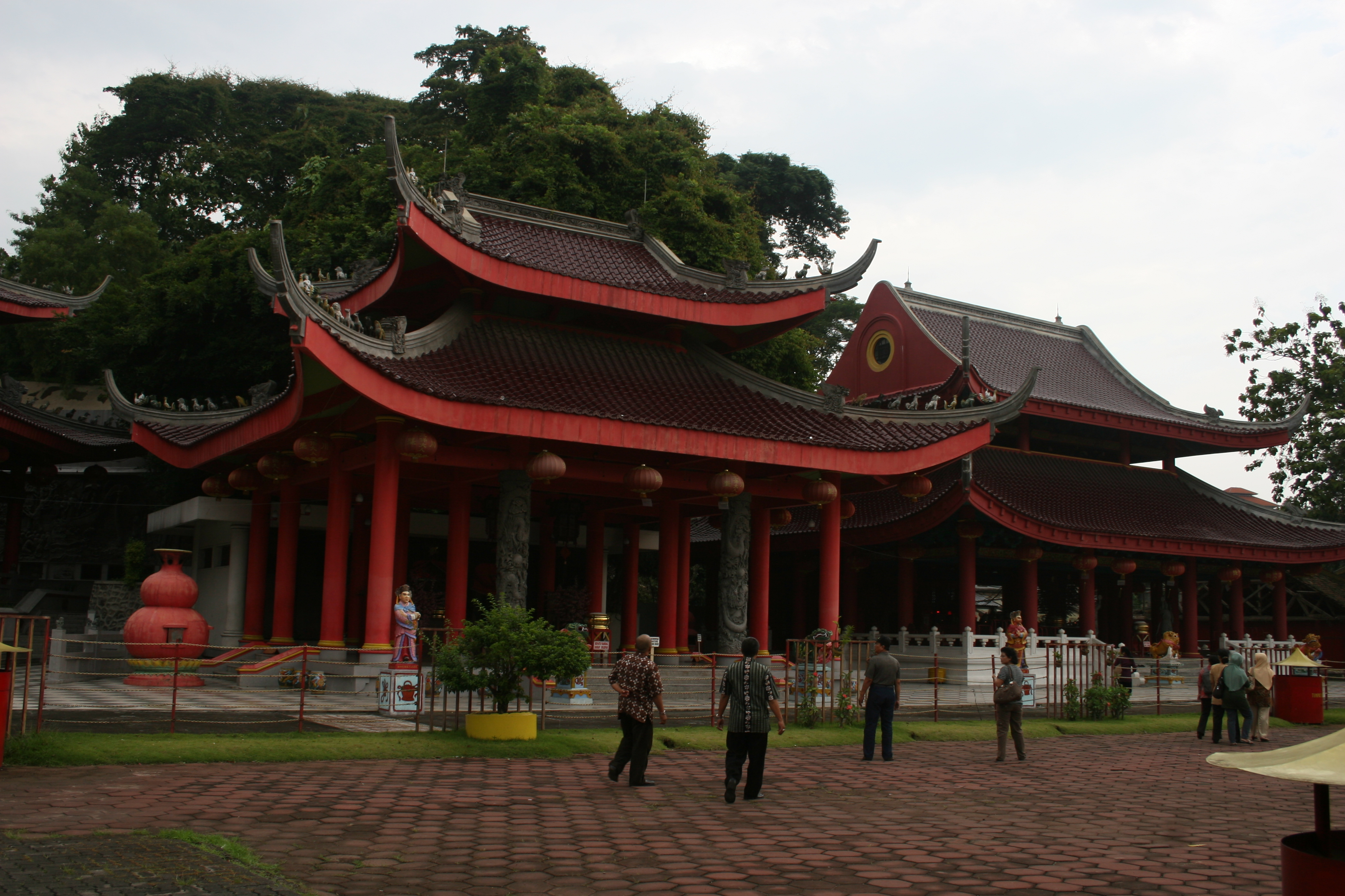 Sam Po Kong temple at Semarang